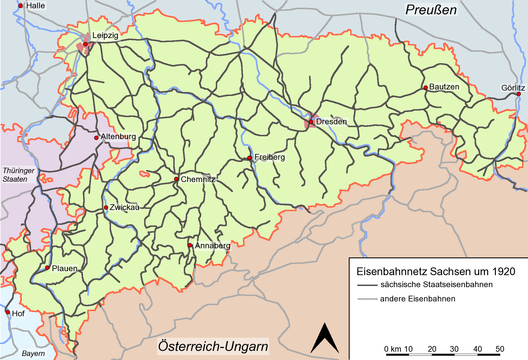 Railway network in Saxony to 1920. Railway construction to 1880 - to 1900 - to 1920